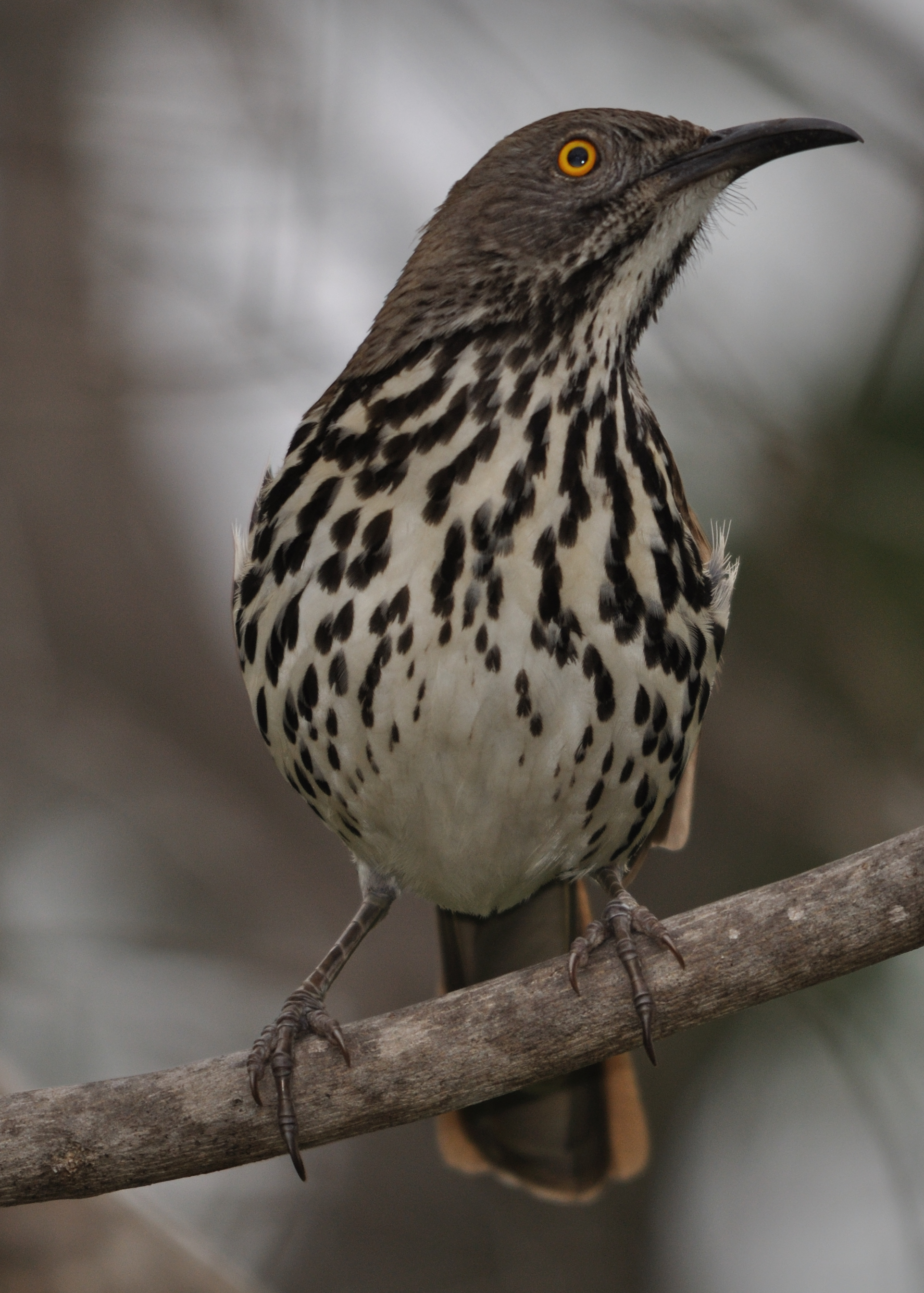 A Long-billed Thrasher in San Antonio, Texas, USA.